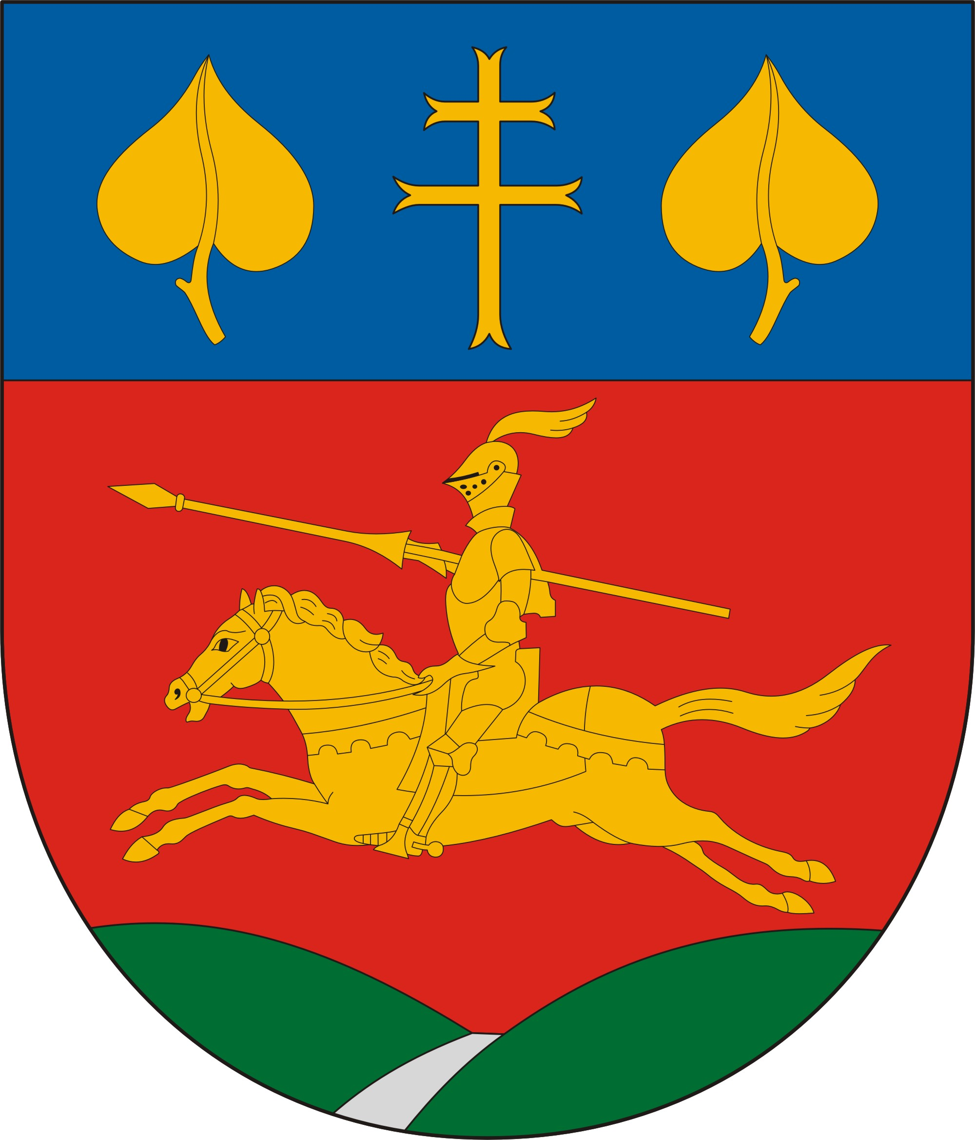 Coat of arms of Patalom, Hungary